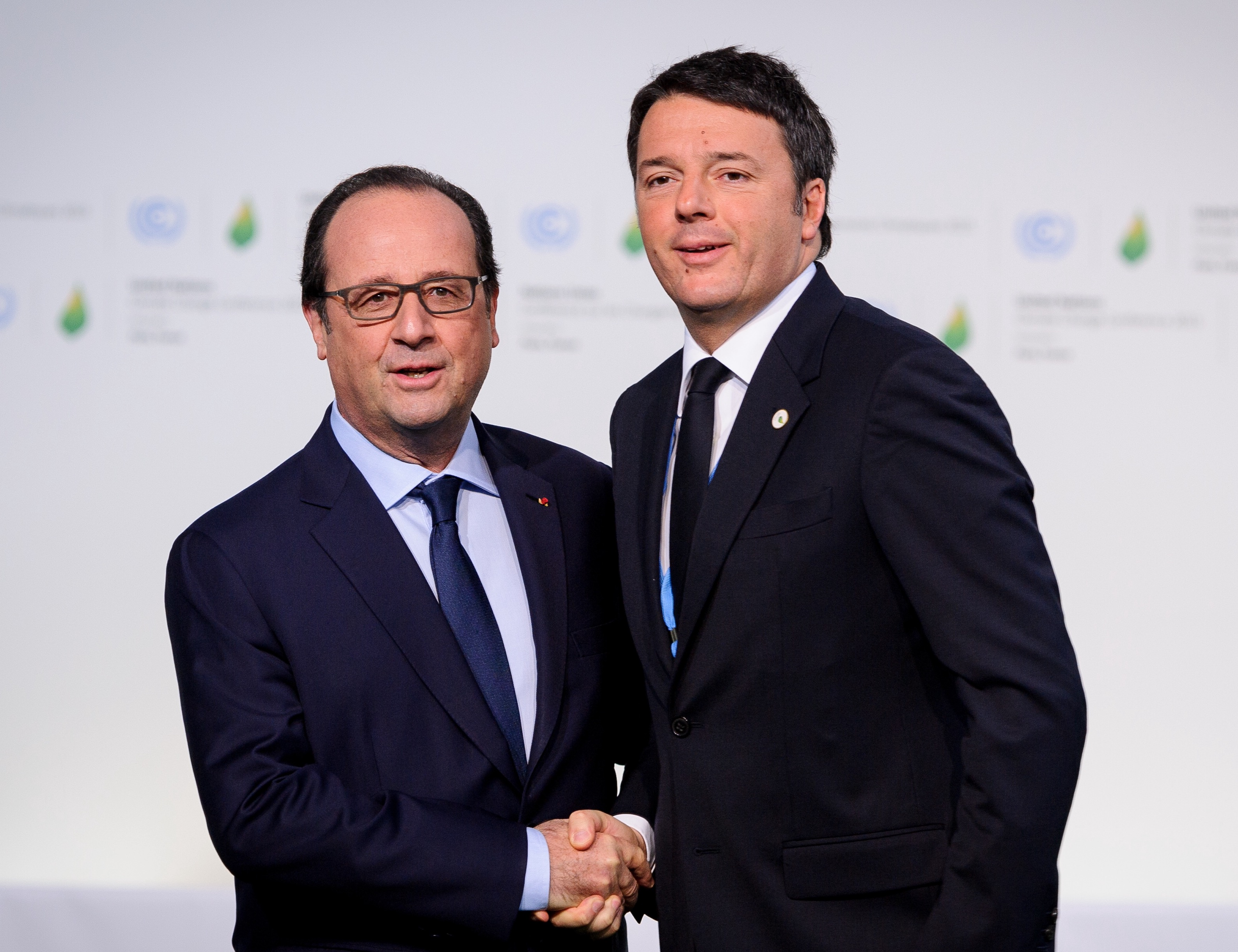 Conférence des Nations unies sur les changements climatiques - COP21 (Paris, Le Bourget)